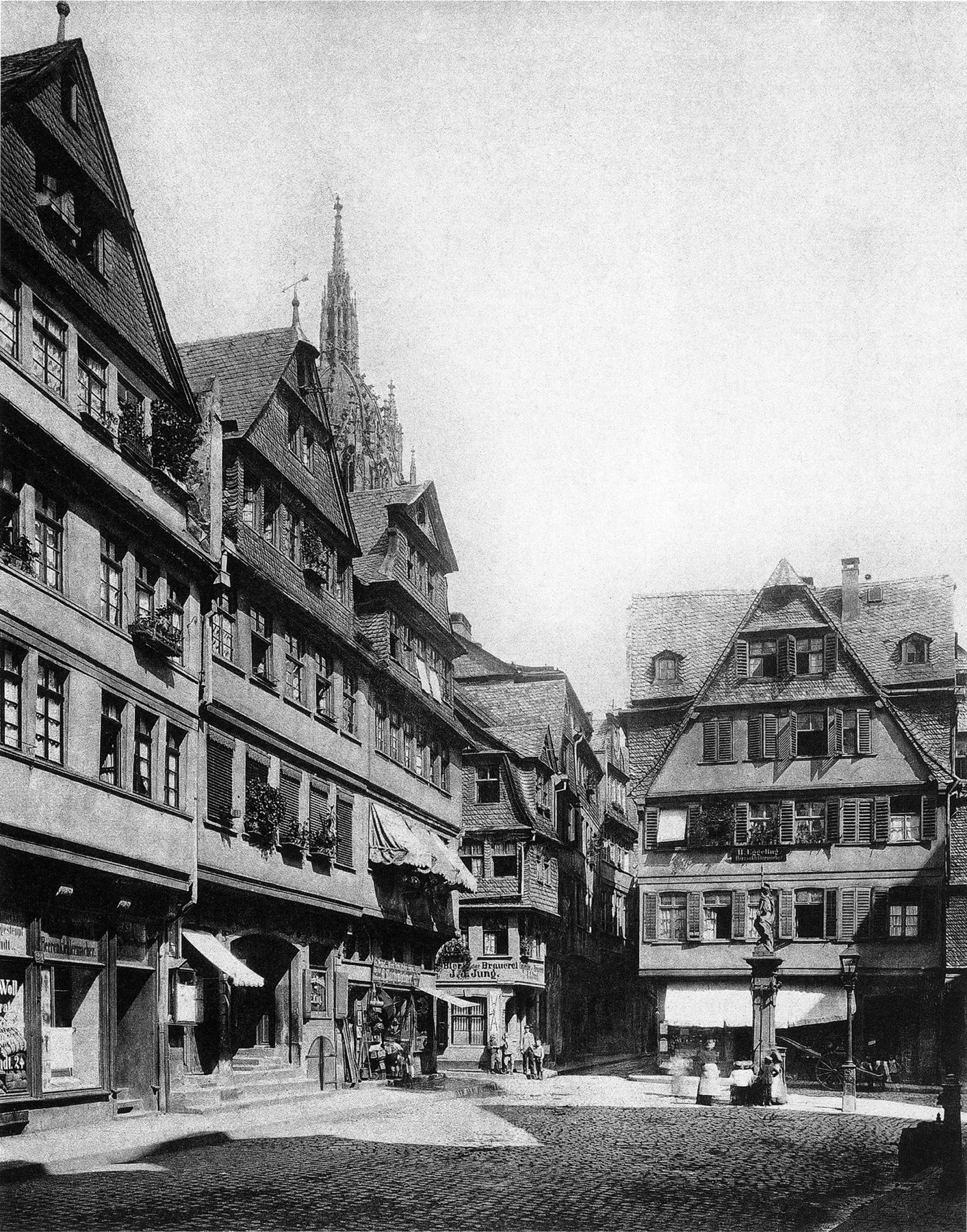 Frankfurt on the Main: Heilig-Geist-Plaetzchen (little place of the Holy Ghost) in the old town as seen to the east; from left to right House Zum Arn, the two Scharnhaeuser (Scharn houses), the southern part of the Lange Schirn (Long Schirn, also known Scharngaesschen, Scharn nalleyway), an unnamed front building at the eastern prosecution of the Saalgasse (Hall lane), on the other side of the lane the House Heiliger Geist (Holy Ghost)